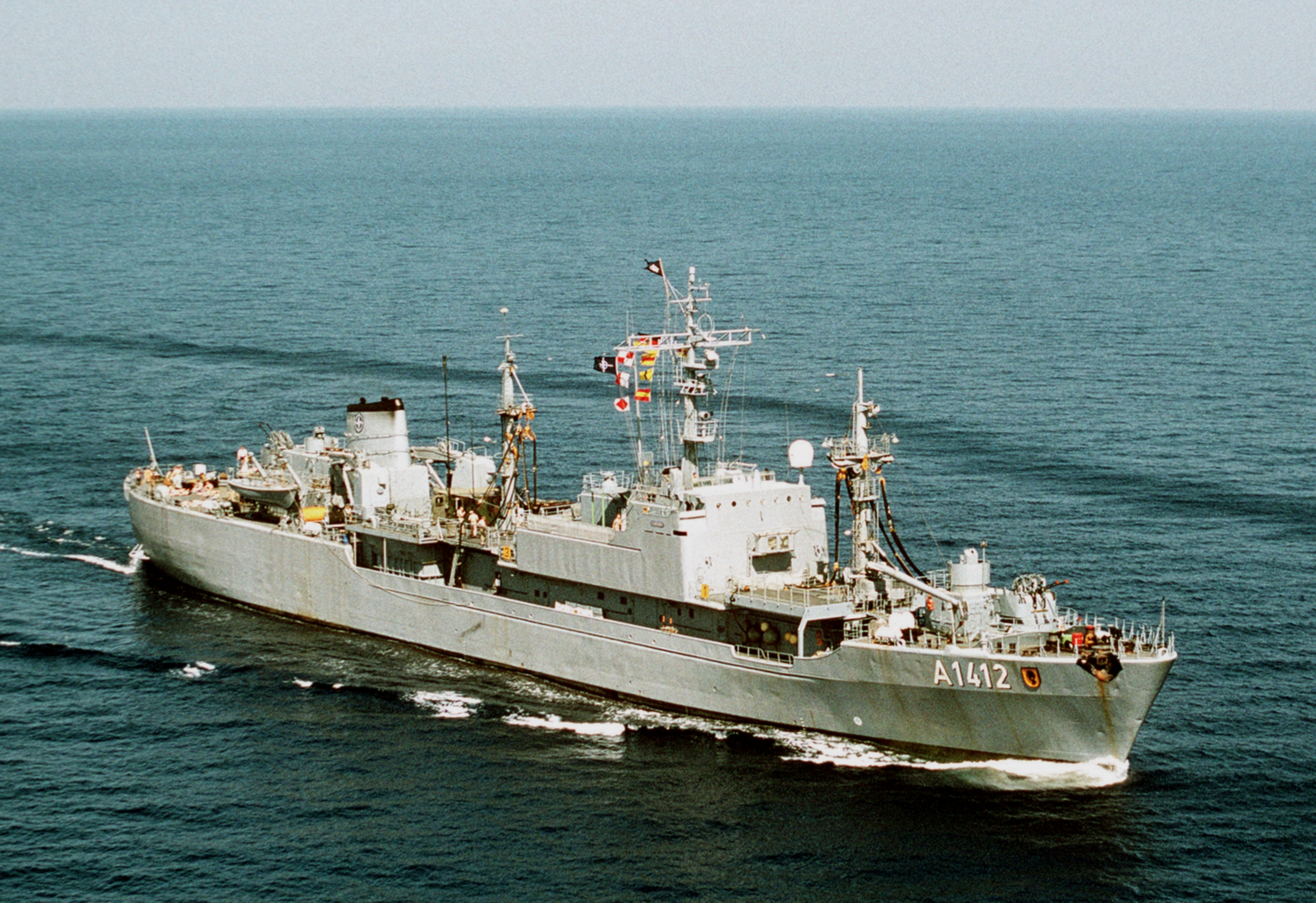 The German replenishment ship Coburg (A1412) underway en route to the Persian Gulf area during Operation Desert Storm. The Coburg was decommissioned on 25 September 1991 and transferred to Greece as Axios (A464).